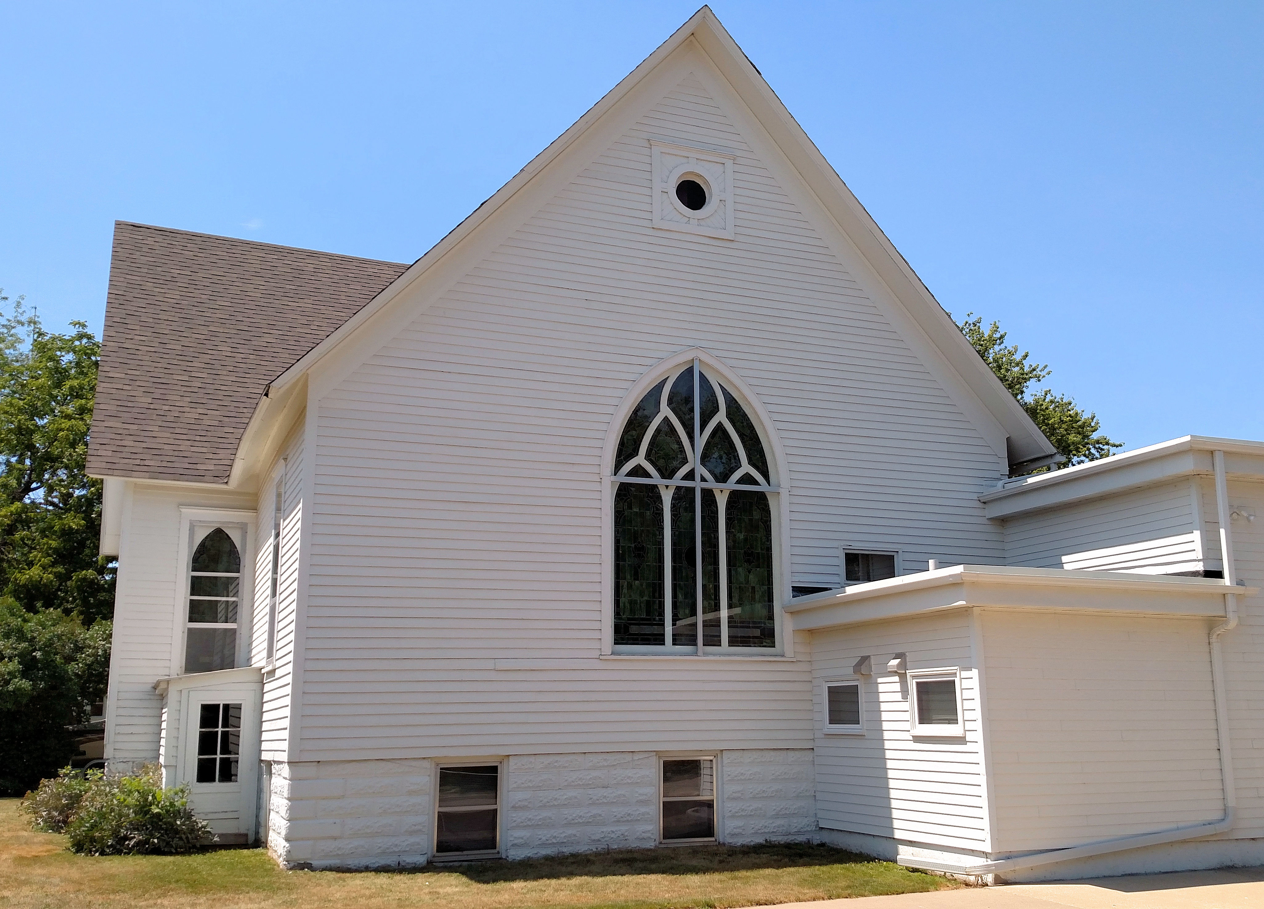 Historic church building of the First Congregational Church in De Smet, SD. Construction of the building began in 1882 with Charles Ingalls, father of Laura Ingalls Wilder, being one of the builders. Construction was completed in by August of the same year. The original structure was smaller than the current configuration and had a belfry on the roof. As of 2018, the church is owned and operated as a church by the Christian and Missionary Alliance.